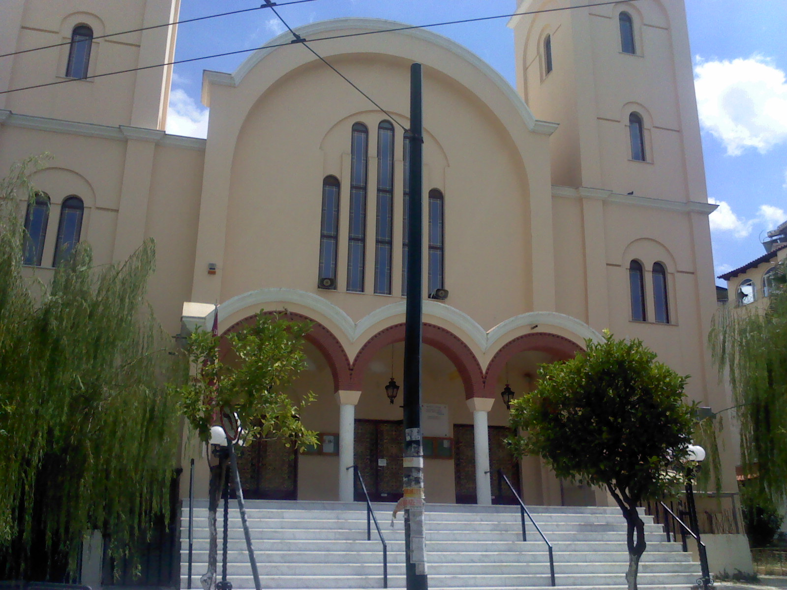 Church Agios Eleftherios Kaminia